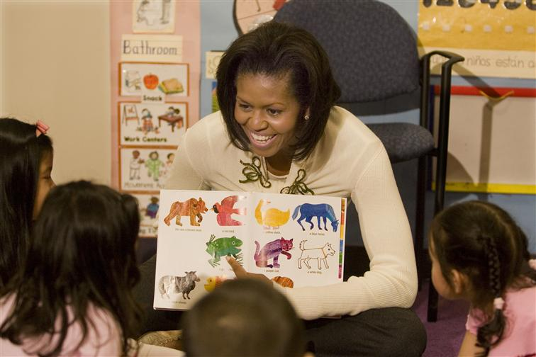 First Lady Michelle Obama at Mary's Center for Maternal and Child Care in Washington, D.C.